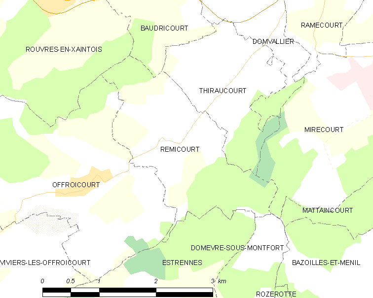 Map of French municipality Remicourt